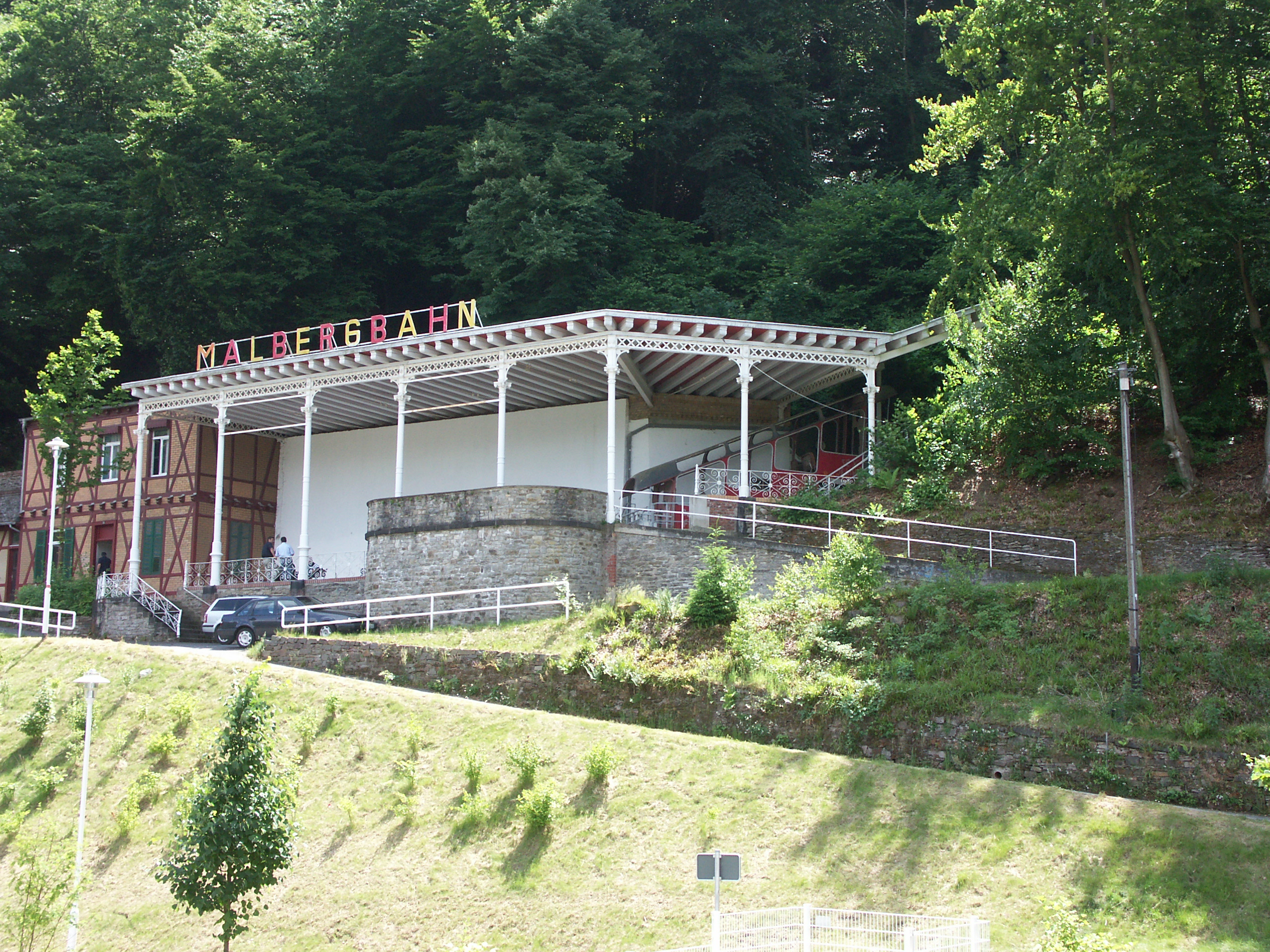 abandoned mountain calbe car "Malbergbahn" in Bad Ems / Germany.